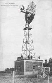 A Lebert Éolienne at Rugles, France.